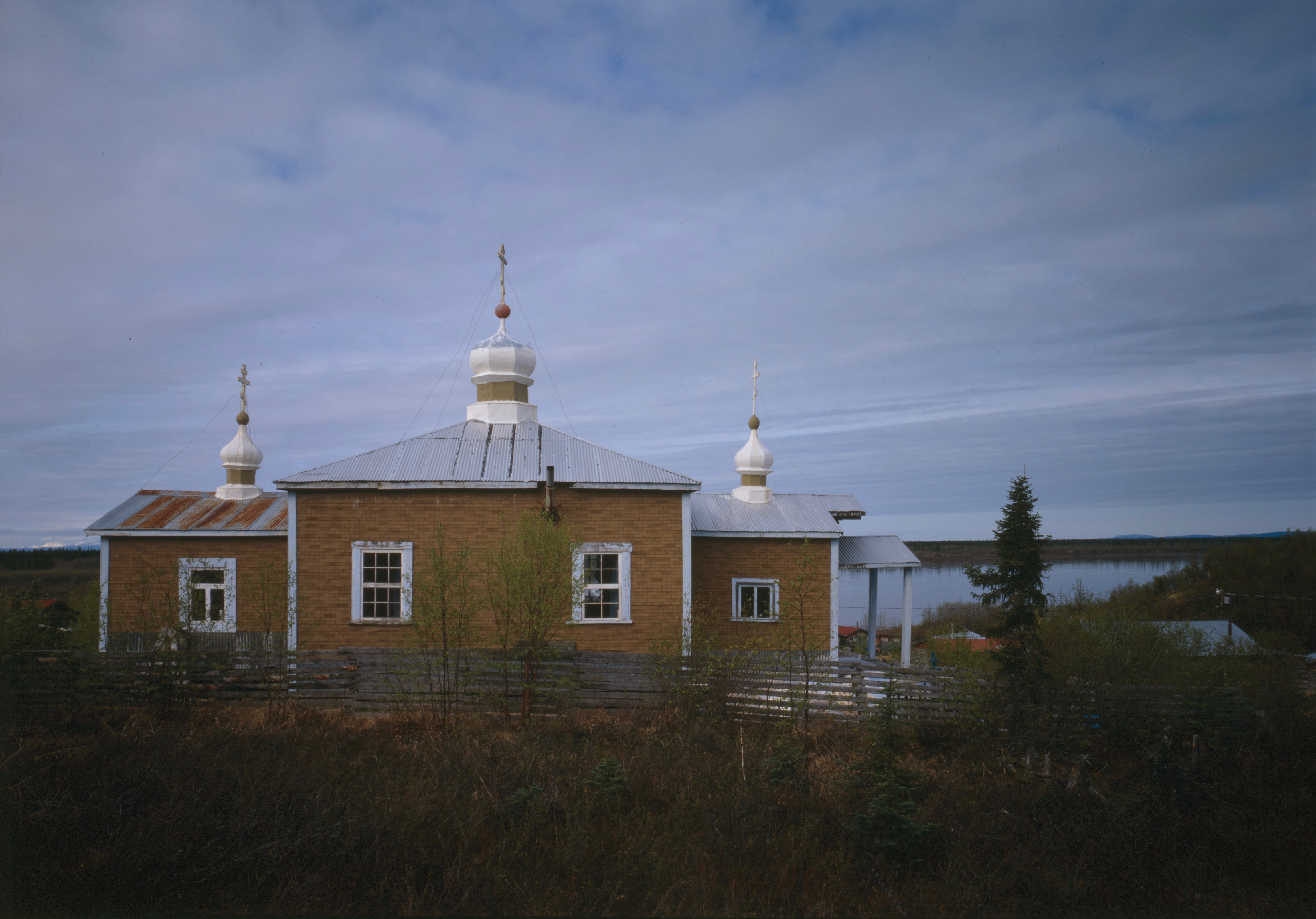 St. Sergius of Radonezh Russian Orthodox Church, Chuathbaluk, Bethel Census Area, Alaska